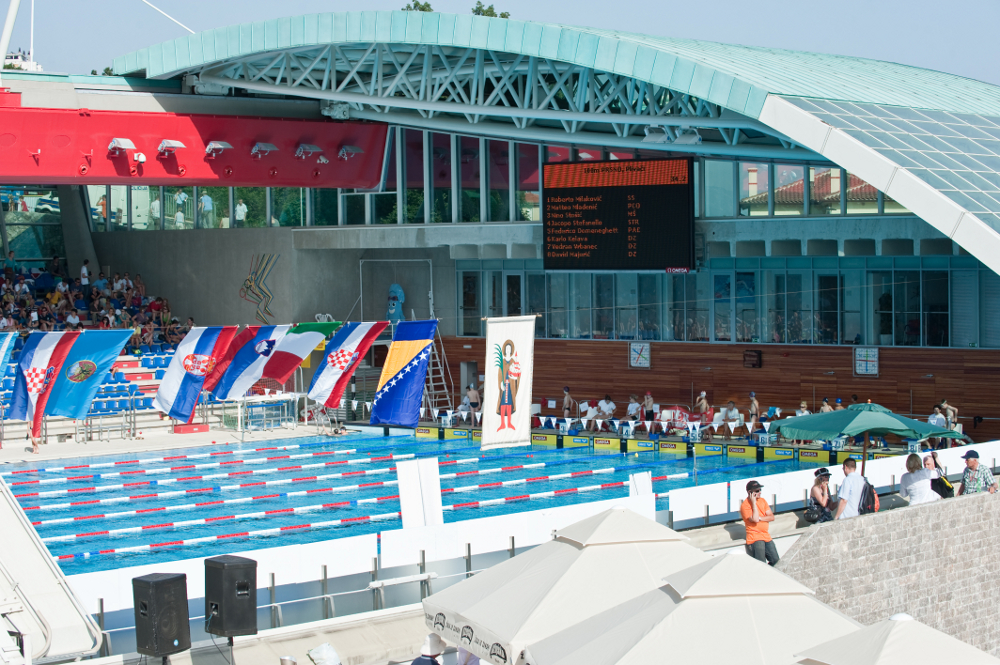 Kantrida Swimming Pools